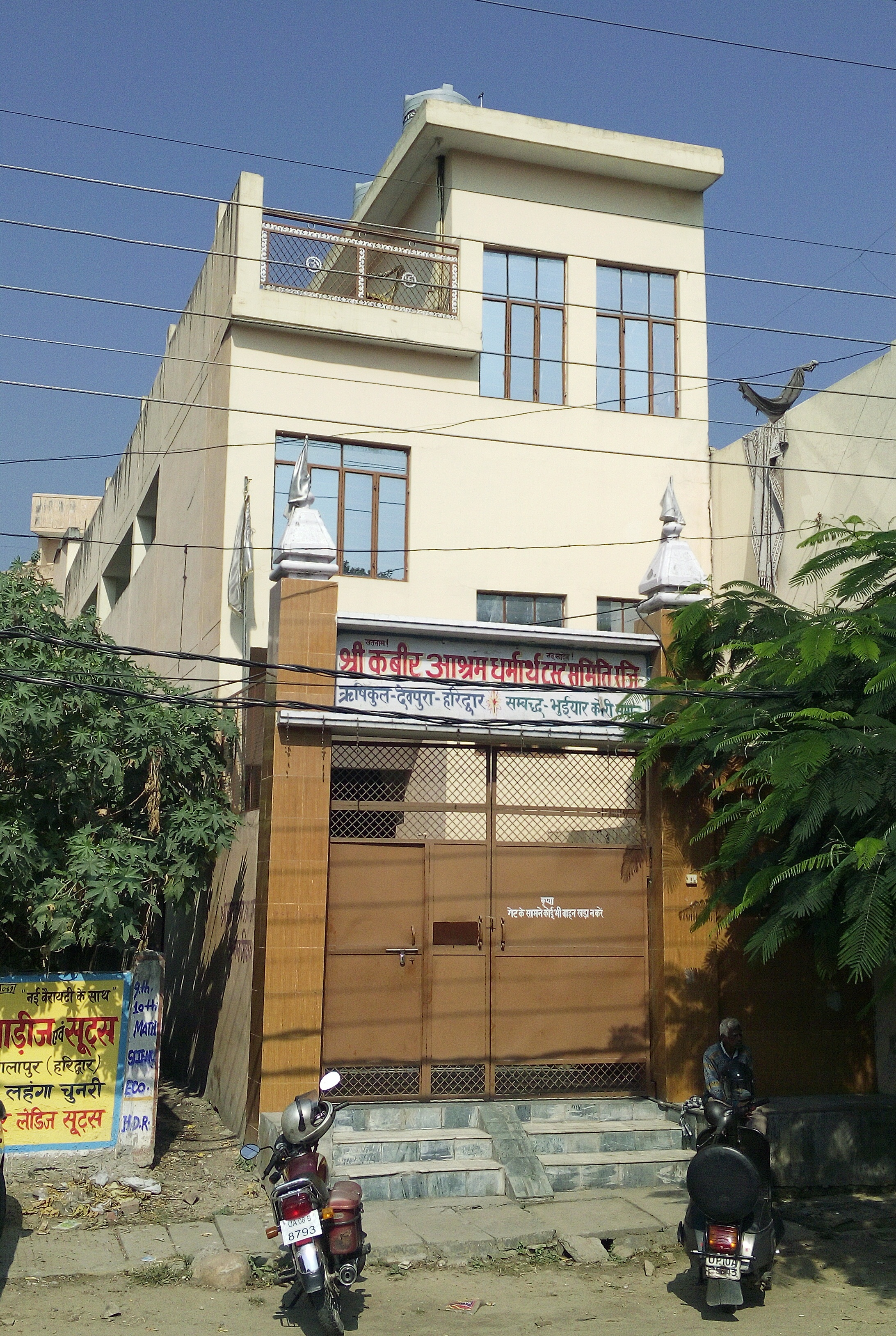 भुइयार धर्मशाला ऋषिकुल हरिद्वार